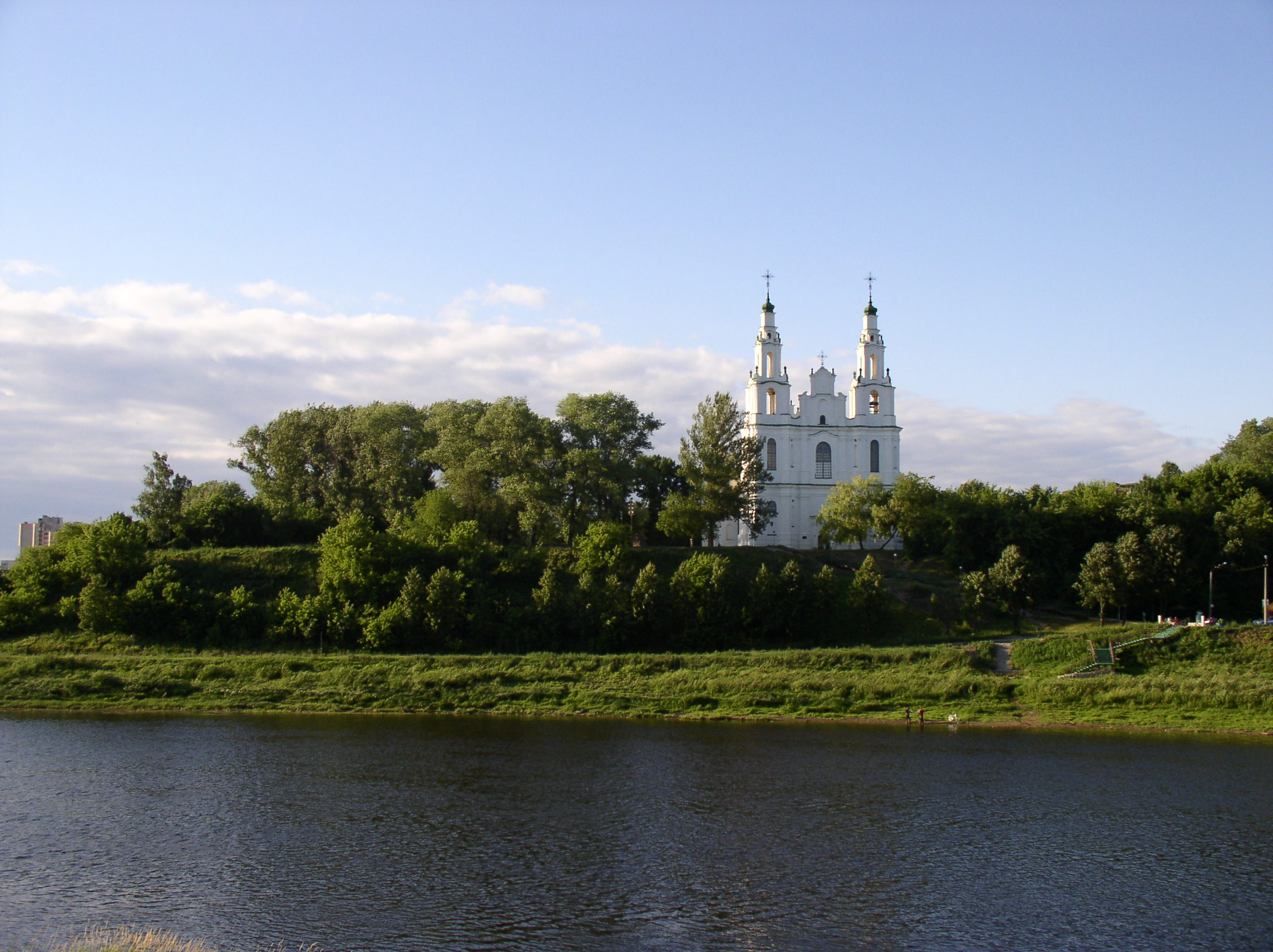 Cathedral of Saint Sophia. Polatsk, Belarus.